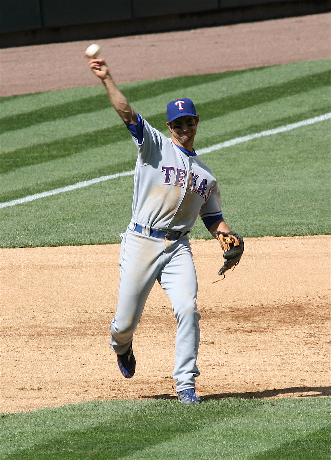 Matt Kata throwing